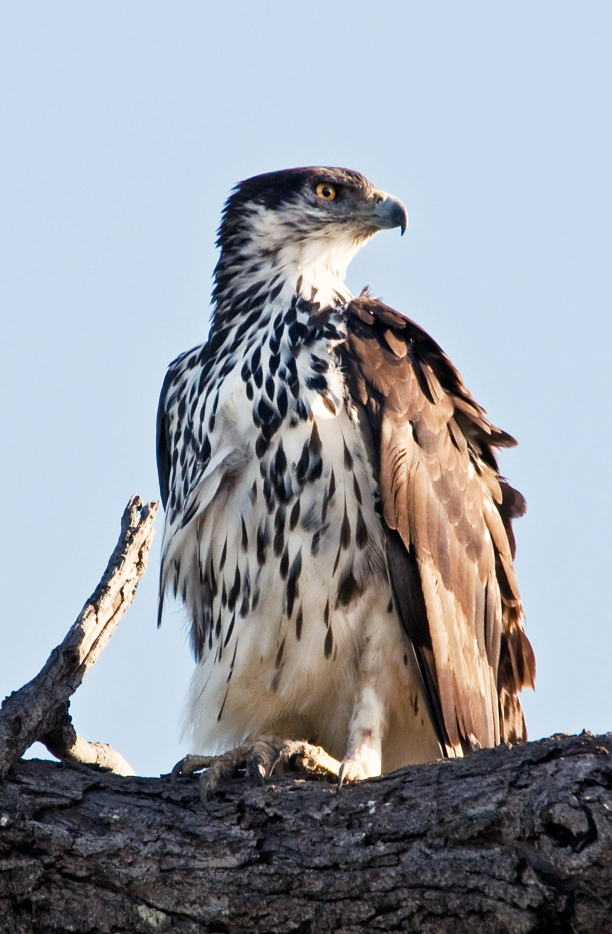 African Hawk Eagle, adult. Kruger National Park, South Africa